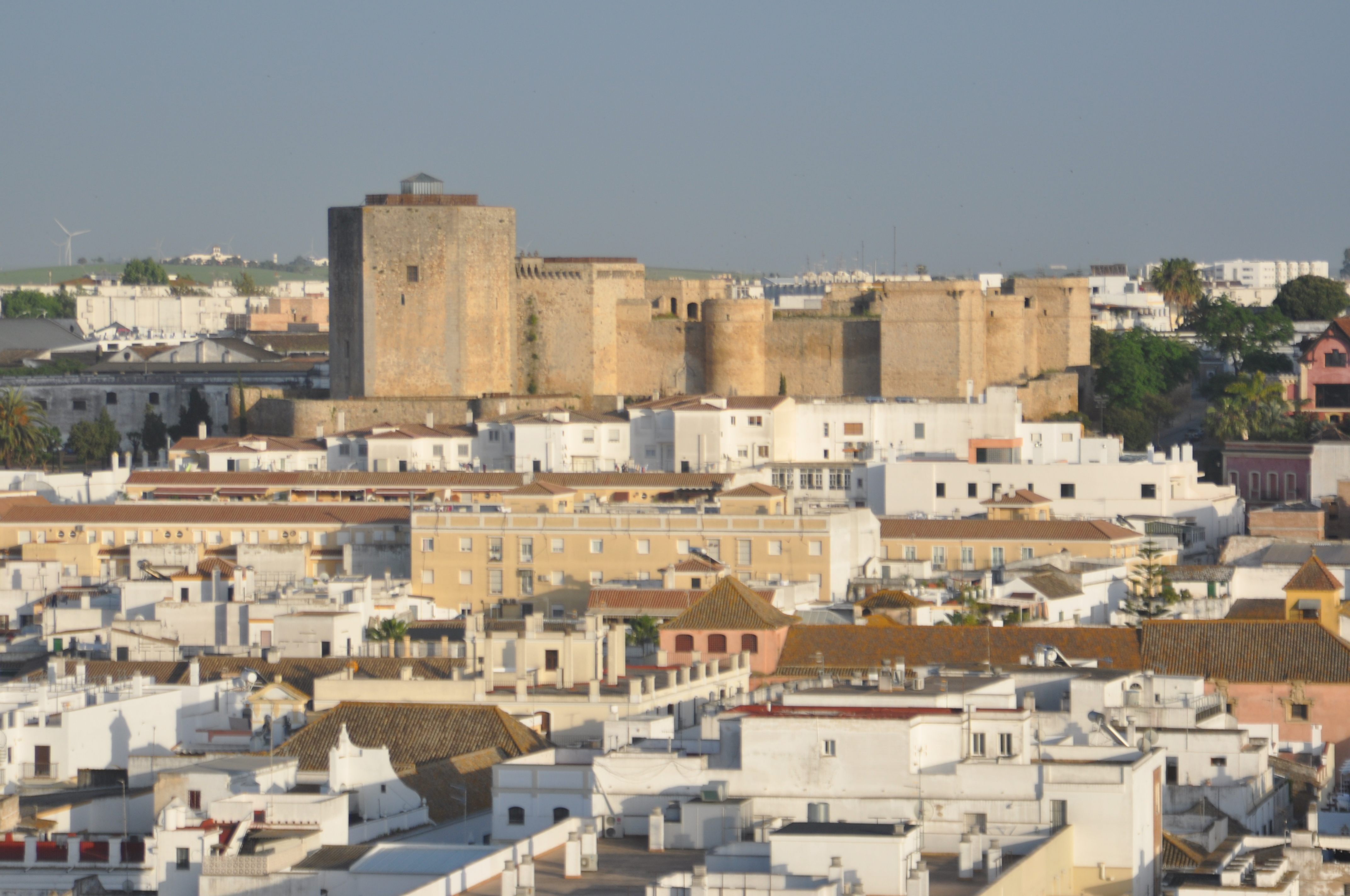 Castle of Santiago in Sanlúcar de Barrameda (Cádiz, Spain). Picture taken from the top floor of Guadalquivir Hotel.